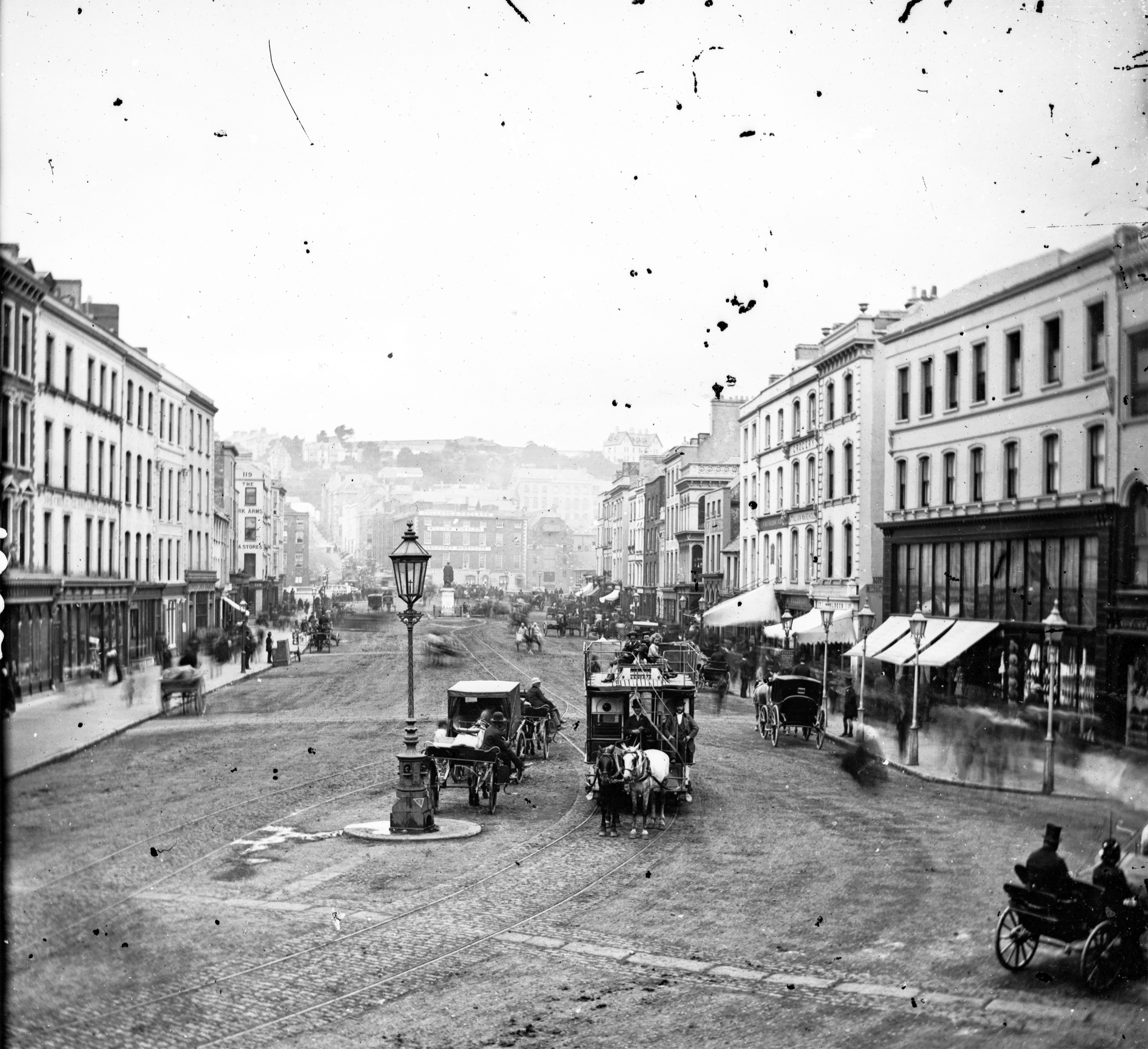 Today we have the battle of the horse-drawn tram versus omnibus photos. It's Cork (the real capital of Ireland?) versus Dublin (the real capital of Ireland!). Which is the best image? That might be a little subjective, so perhaps which can we find out the most about? Date: 1864-1875 NLI Ref.: STP_1805